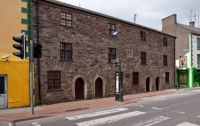 Boyle's Almshouses, Youghal Richard Boyle, 1st Earl of Cork built these almshouses in 1643, the oldest in Ireland. They were built with a promise to provide "Five Pounds apiece for each of ye old decayed soldiers". The pledge was later extended to their widows. Distinctly Jacobean in style, there are six almshouses altogether, four front North Main Street, while the remaining two face Church Street. The almshouses retained their original use until the 19c, when they underwent alterations. In modern times they were further altered to provide homes for senior citizens.